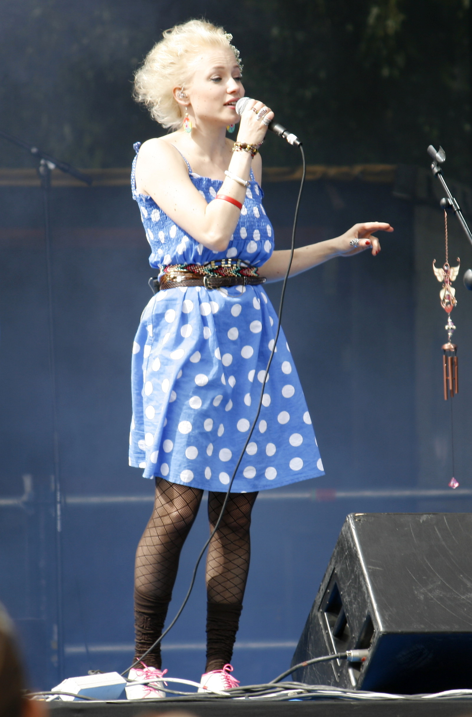 Chisu (Christel Sundberg) performing in Kaisaniemi park (Kaisaniemenpuisto), Helsinki.